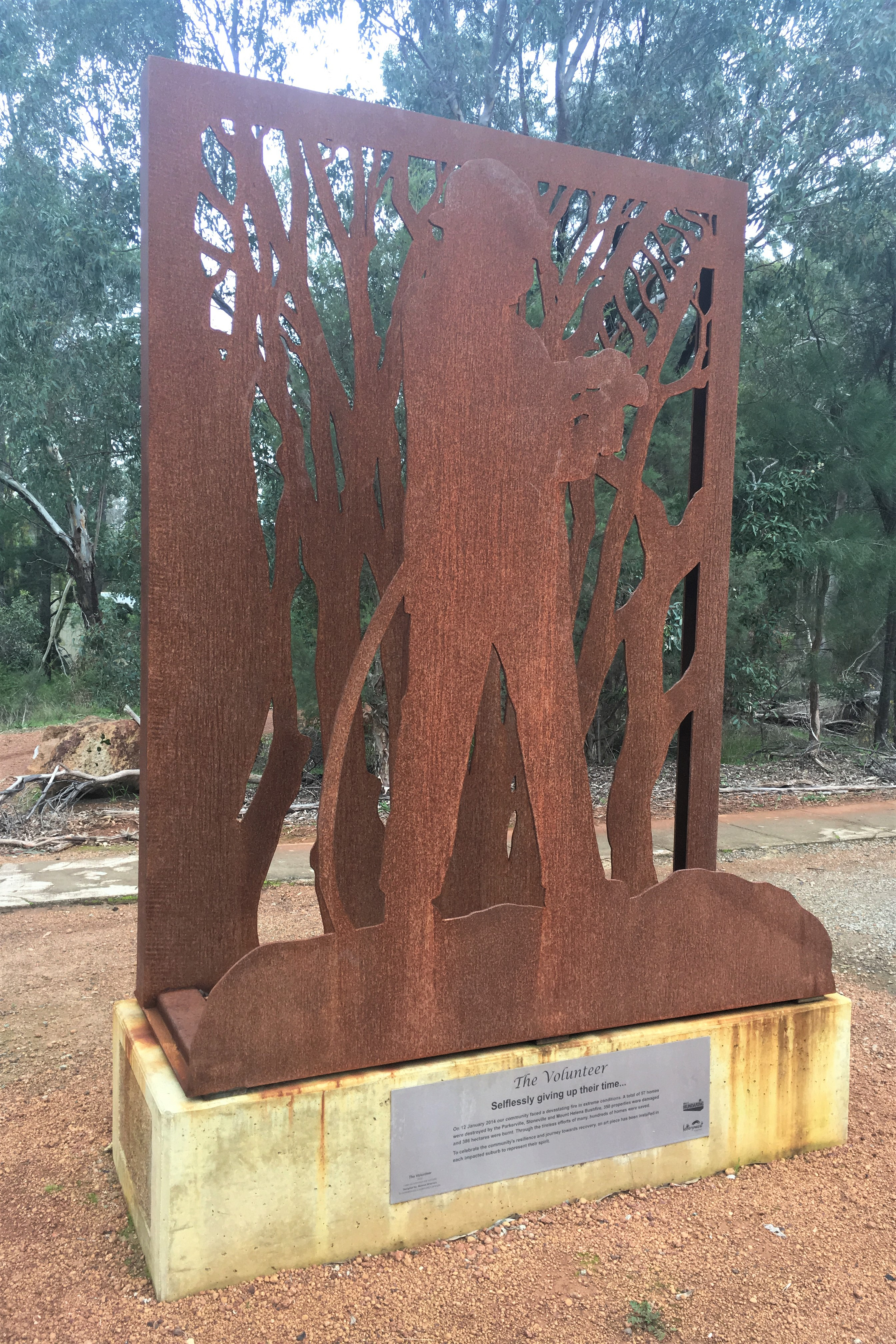 The Volunteer 2016: Selflessly given up their time... Laser Cut mild Steel and concrete designed by Melinda Brezmen to commemorate a community's strength Located on the Railway Reserves Heritage Trail, Parkerville, Western Australia